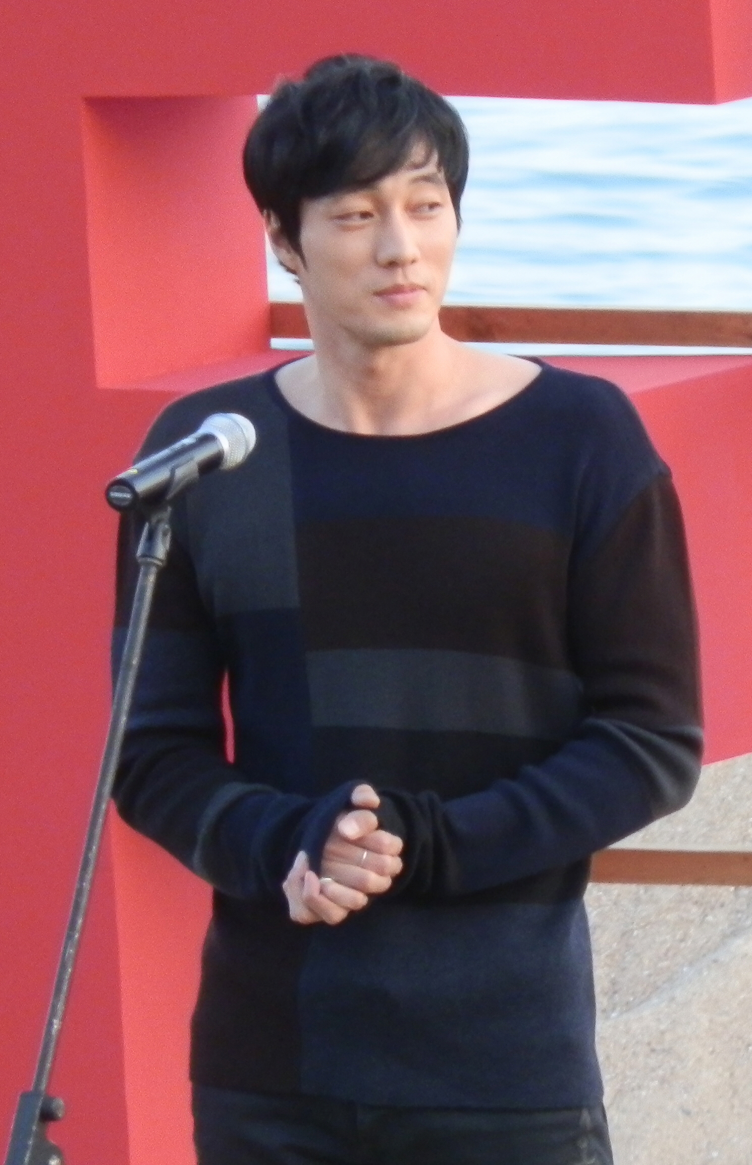 So Ji-sub at 2011 Busan International Film Festival